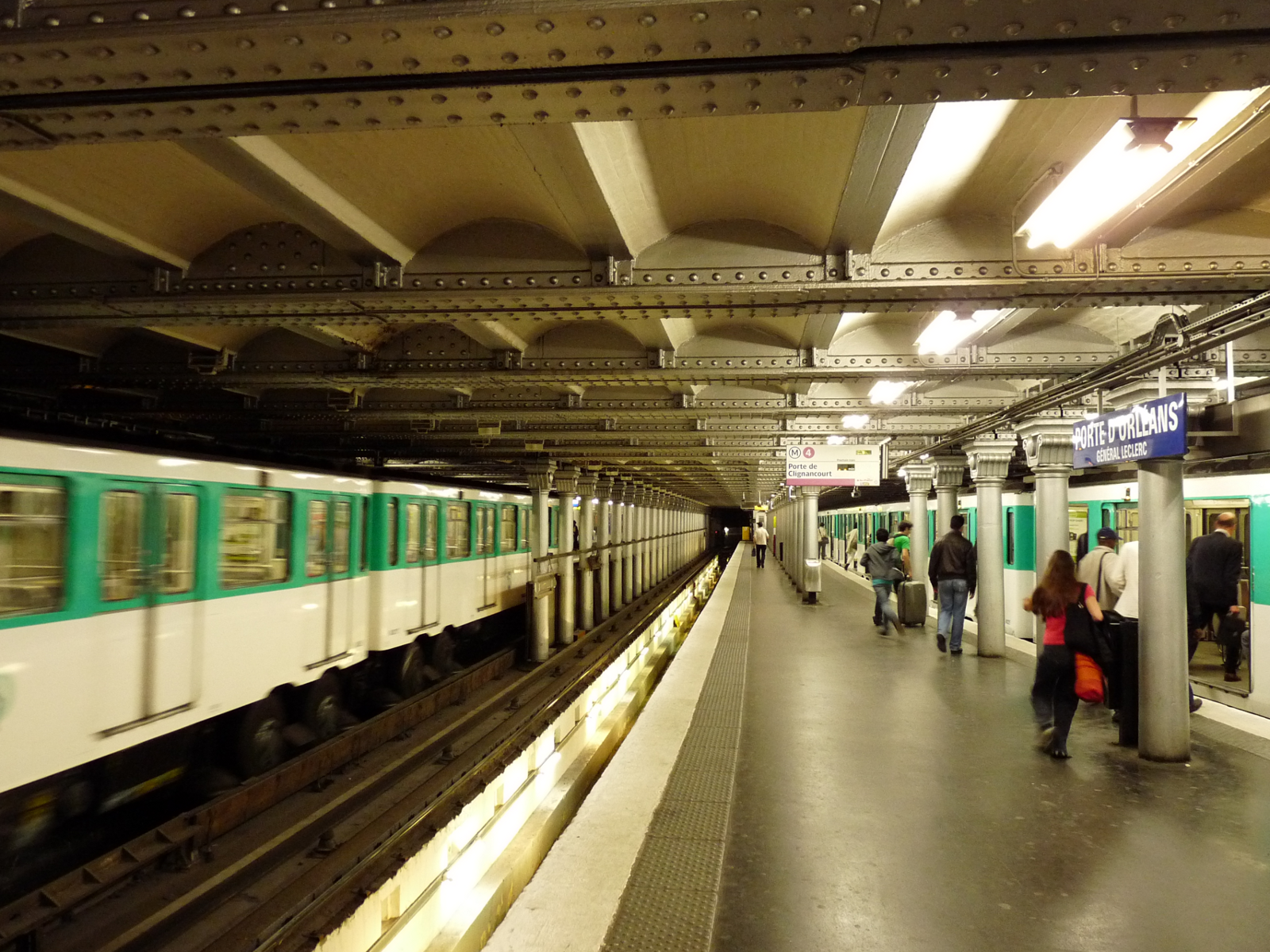 Quai of the Metro station Porte d'Orléans in Paris (Line 4)